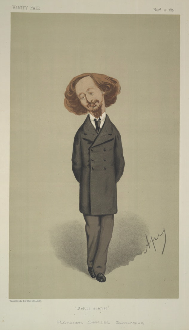 Caricature of Algernon Charles Swinburne. Caption read "Before sunrise".